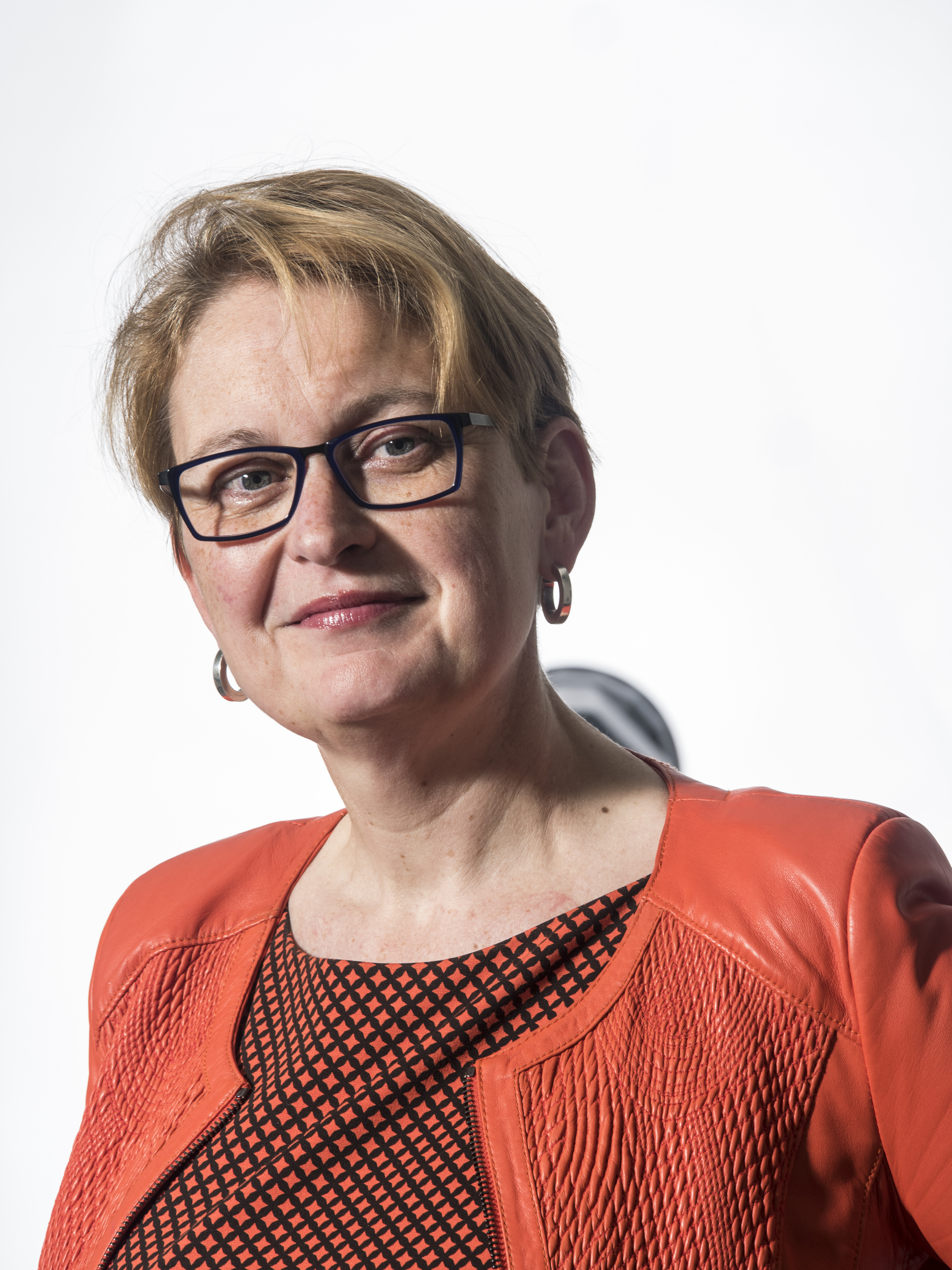 Dutch geneticist Cisca Wijmenga (2015)